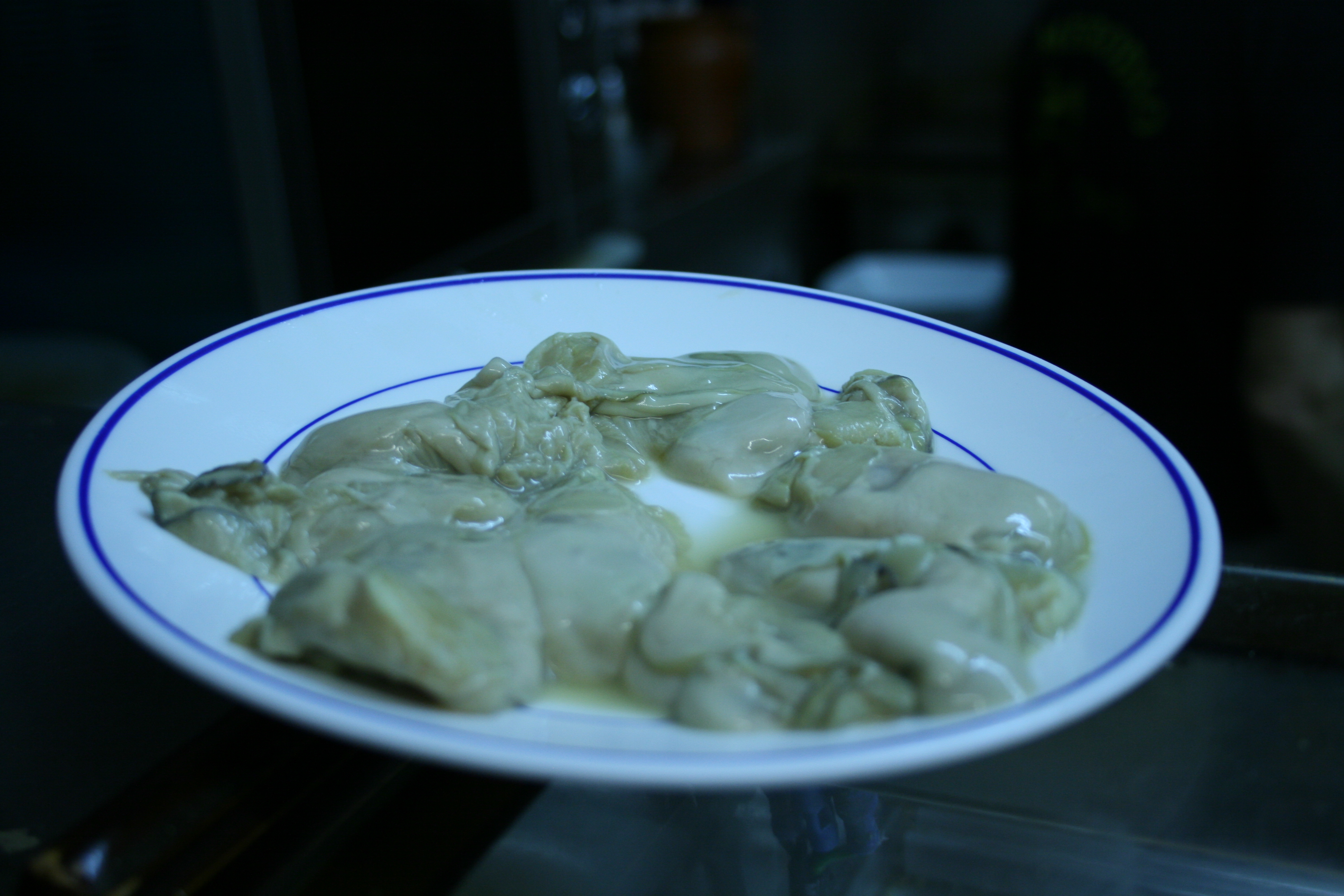 Crassostrea gigas